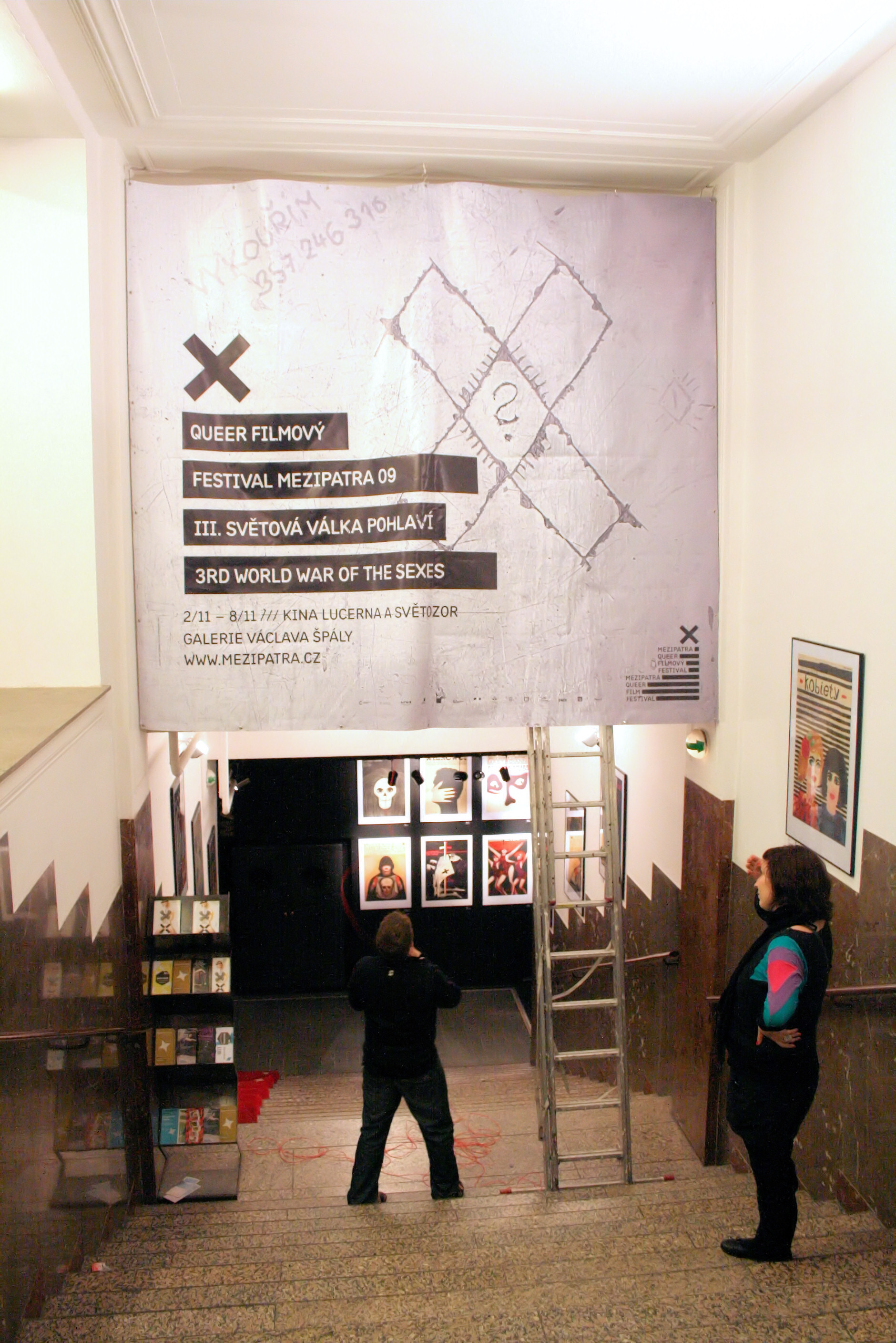 Banner of the 10th queer film festival Mezipatra 2009, Cinema Světozor, Prague, Czech Republic.